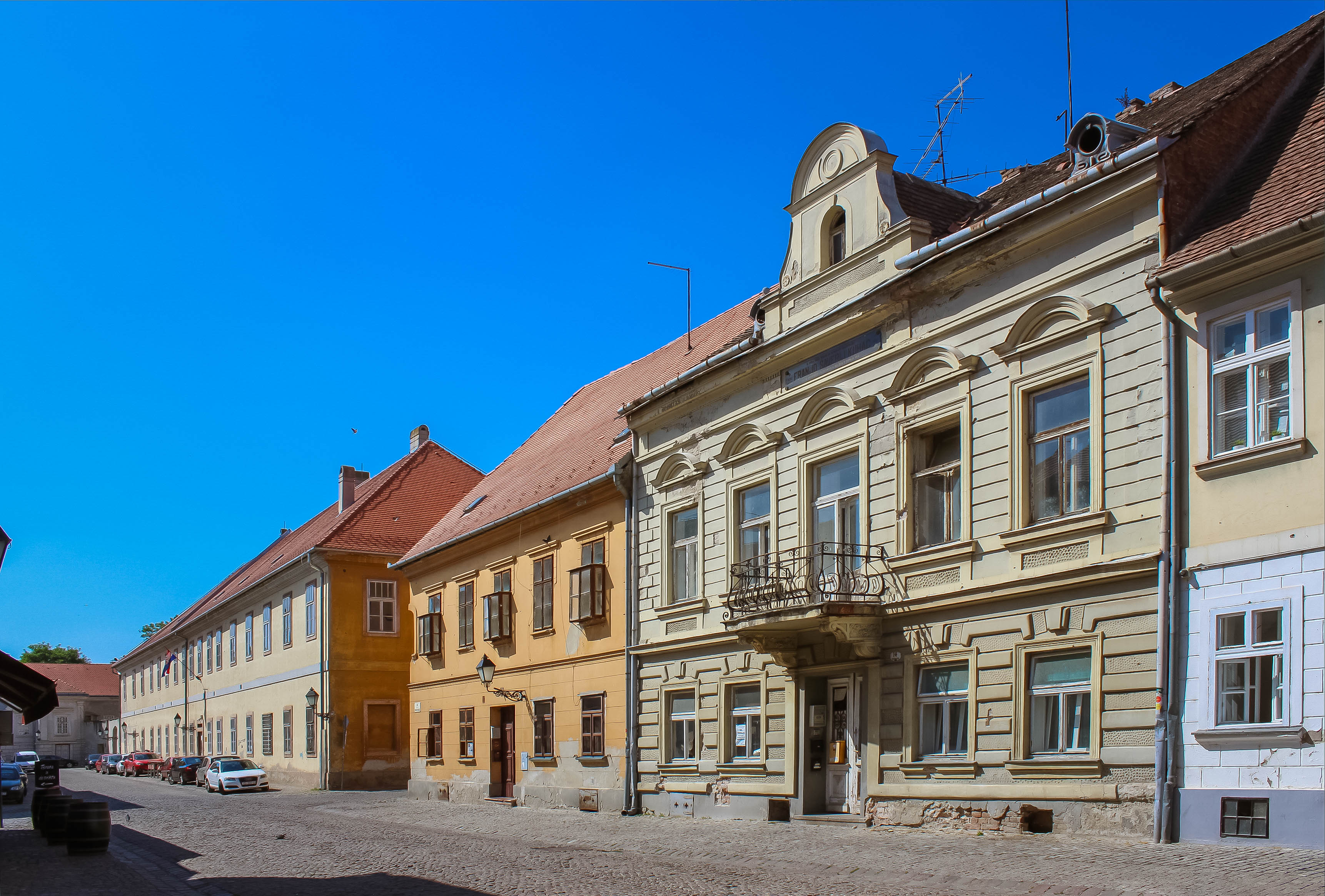 Kuhačeva Street